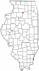 Category:Illinois city locator maps